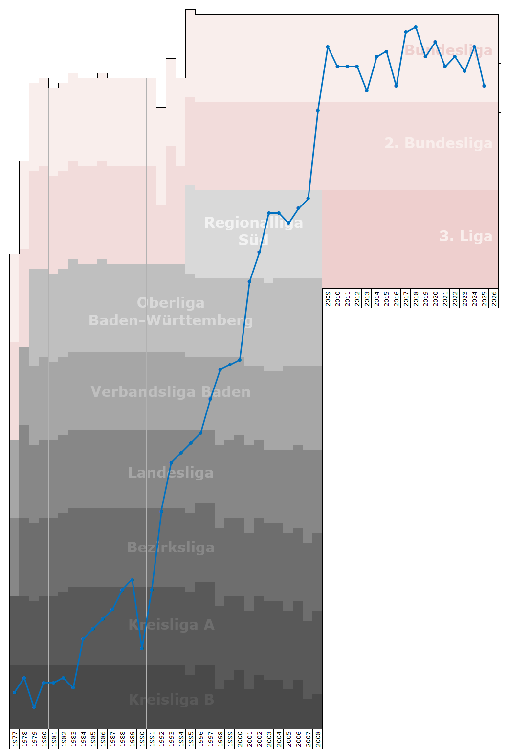 Chart of end-season table positions of 1899 Hoffnheim in the football league system of Germany. Data source: RSSSF, wikipedia, f-archiv.de, fussball.de